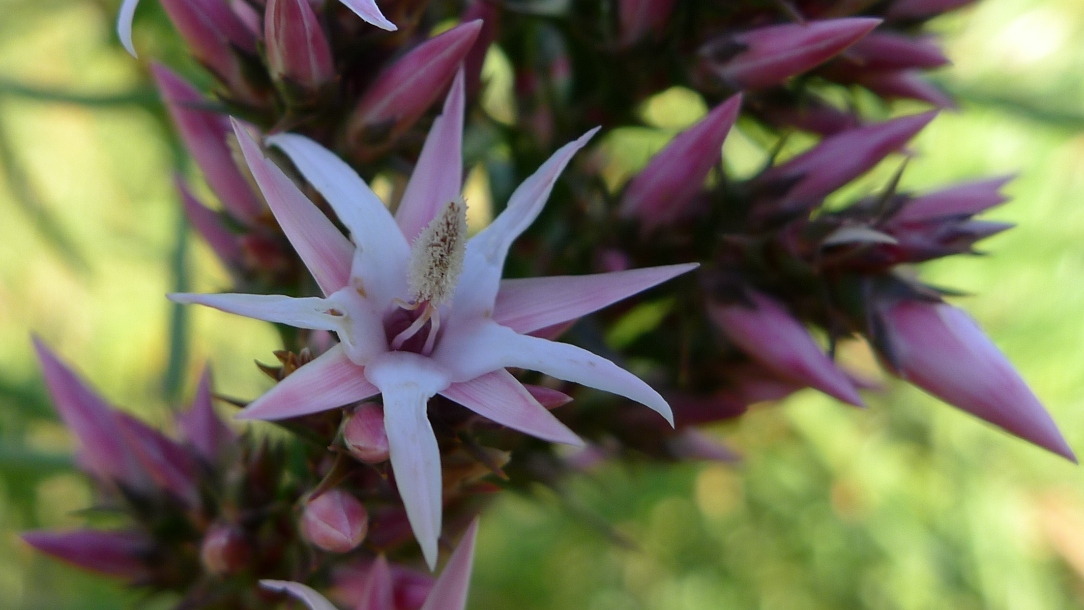 Pink Swamp Heath, Sprengelia incarnata. Royal National Park, NSW Australia, July 2011.